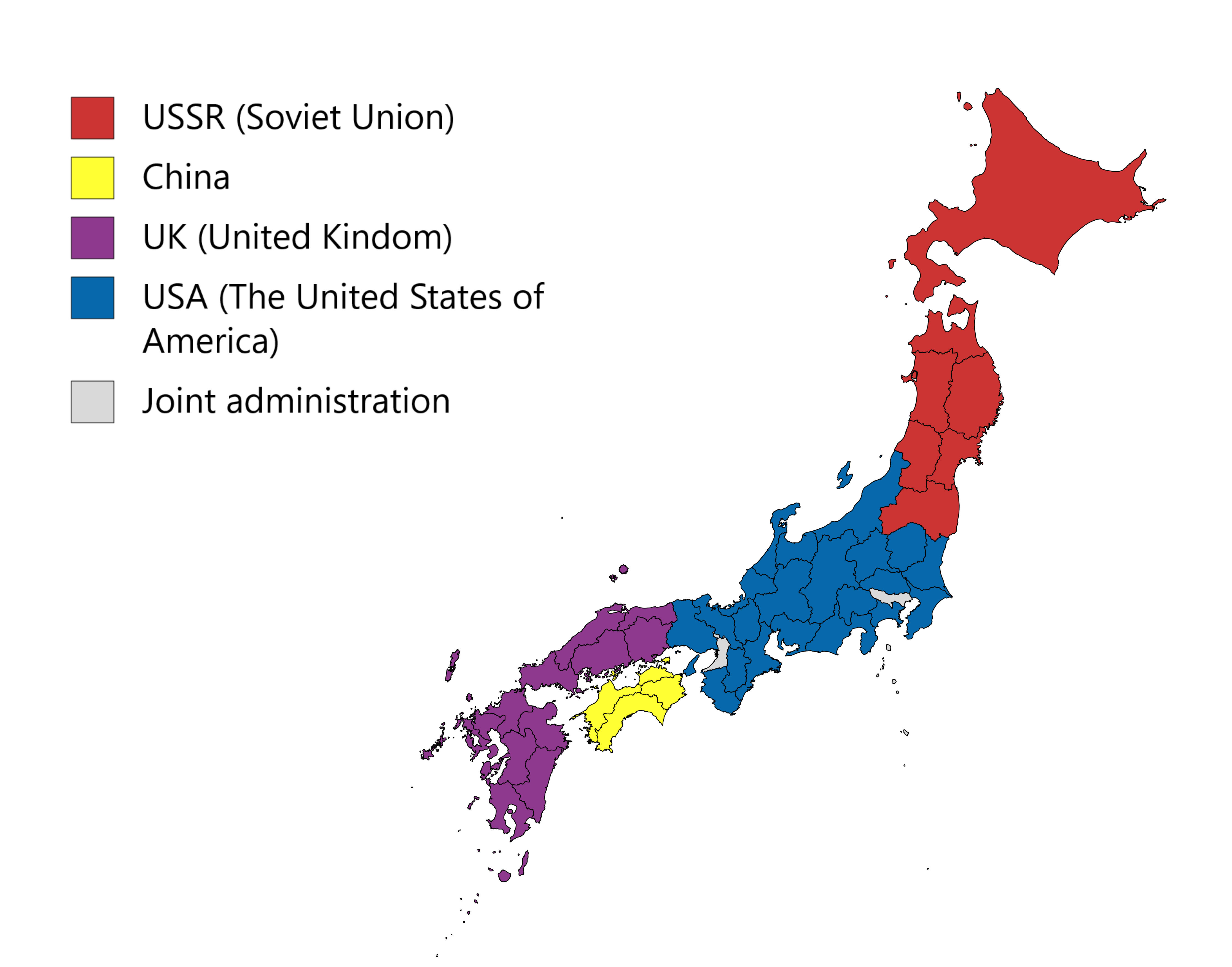 One of the first proposals for the division of Japan among the occupants.